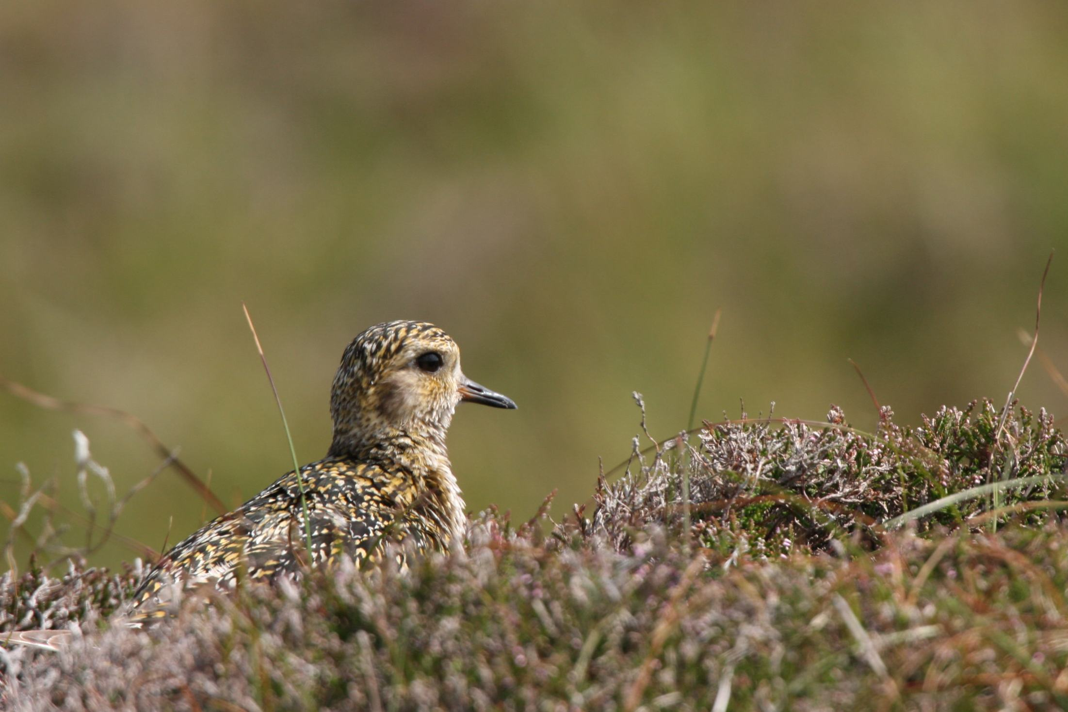 golden plover